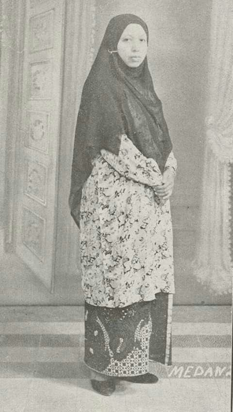 Rahmah el Yunusiyah PD